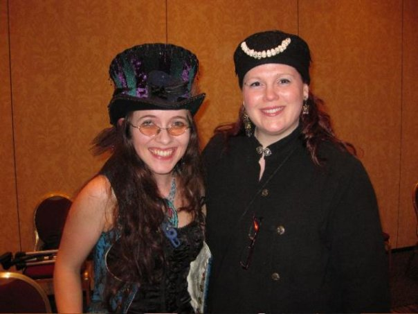 Angel Leigh McCoy (right) with singer/songwriter S.J. Tucker at a RAVENS IN THE LIBRARY reading. 2009.